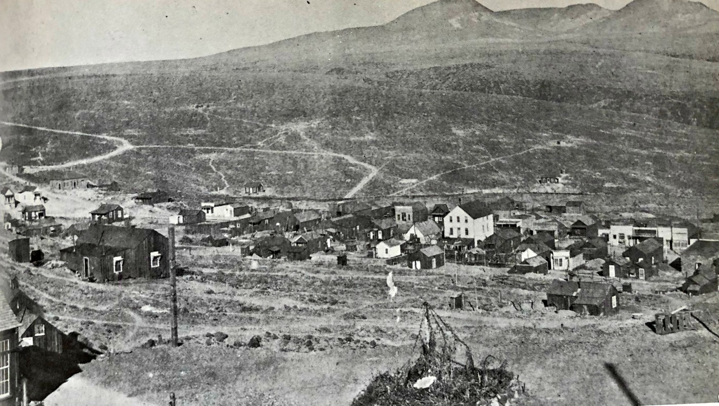 Candelaria, Nevada 1880s